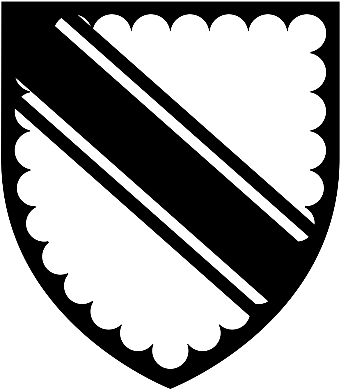 Arms of the Dowrish (alias Dowrich) family of Dowrish in the parish of Sandford, Devon: Argent a bend cotised sable a bordure engrailed of the last. (Pole, Sir William (d.1635), Collections Towards a Description of the County of Devon, Sir John-William de la Pole (ed.), London, 1791, p.480); these are the arms visible on the contemporary brass to Mary Carew (d.1604), wife of Walter Dowrich of Dowrich, in Sandford Church. The Dowrish arms given in Vivian, Lt.Col. J.L., (Ed.) The Visitation of the County of Devon: Comprising the Heralds' Visitations of 1531, 1564 & 1620, Exeter, 1895, pp. 289–91, pedigree of "Dowrish of Dowrish" p.289 (Argent, a bend cotised sable a label of three points) are incorrect)